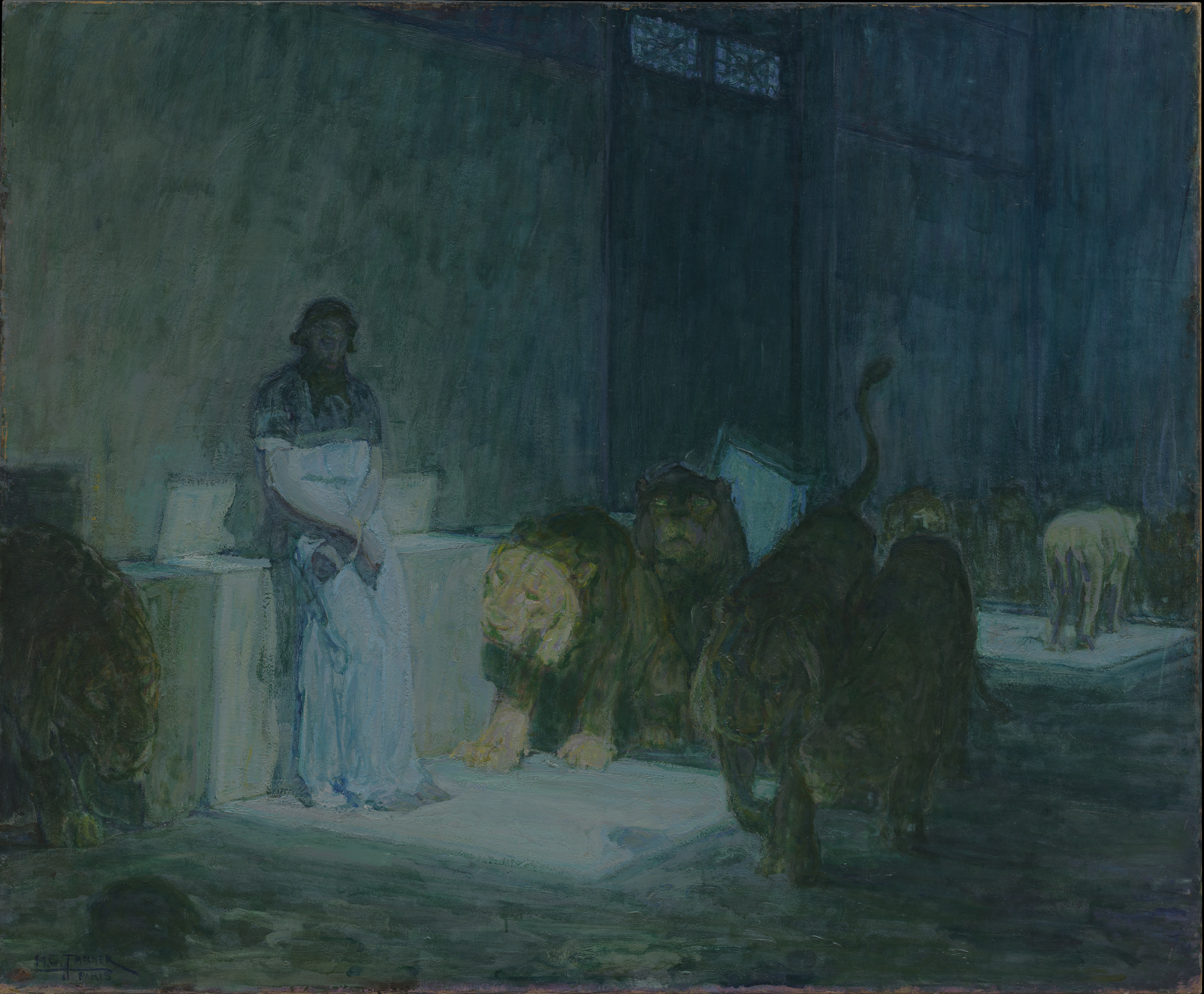 United States, 1907-1918 Paintings Oil on paper mounted on canvas Mr. and Mrs. William Preston Harrison Collection (22.6.3) American Art Currently on public view: Art of the Americas Building, floor 3